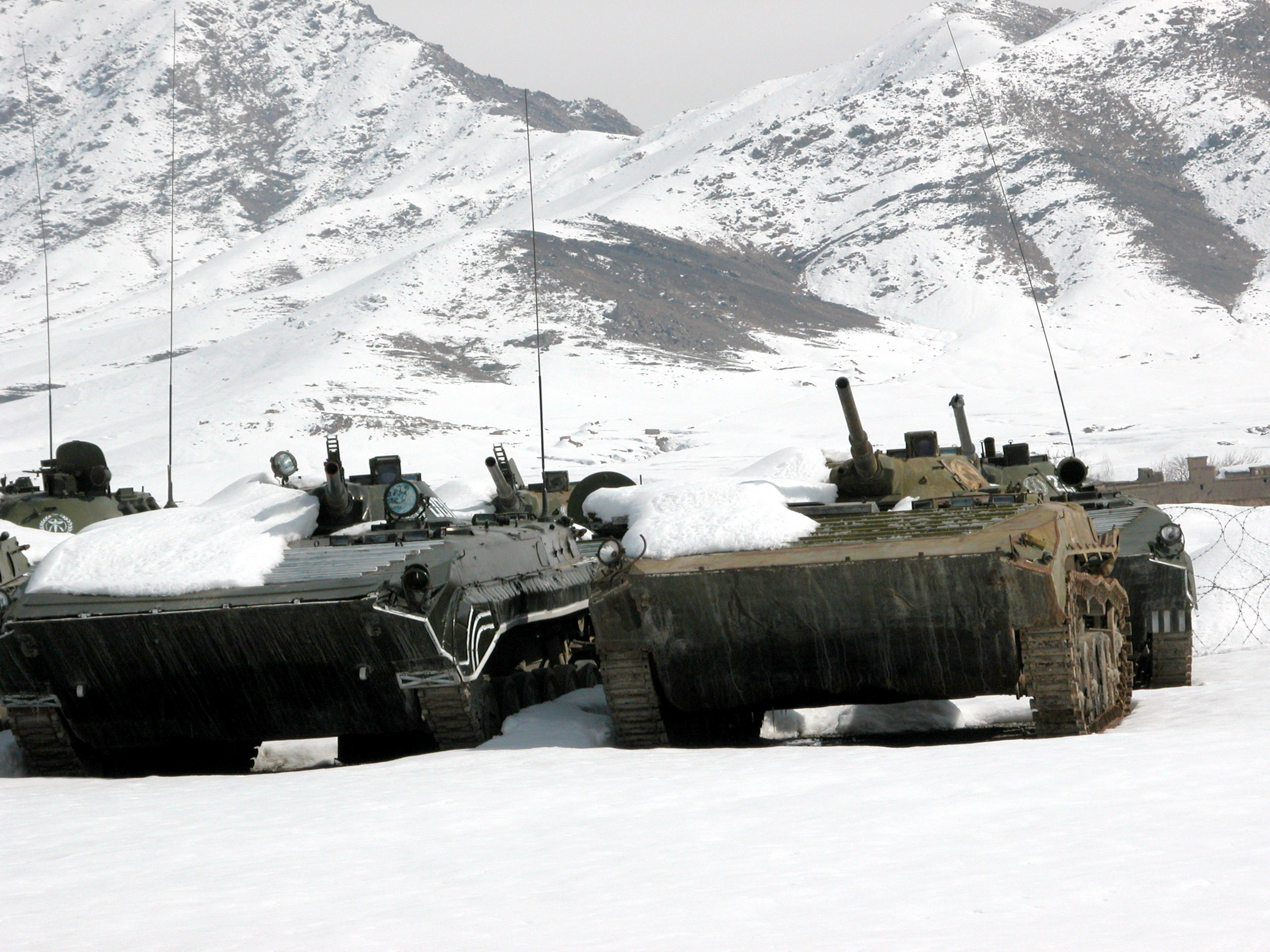 Four BMP-1s and one BMP-2 (the vehicle to the far left) in Afghanistan.